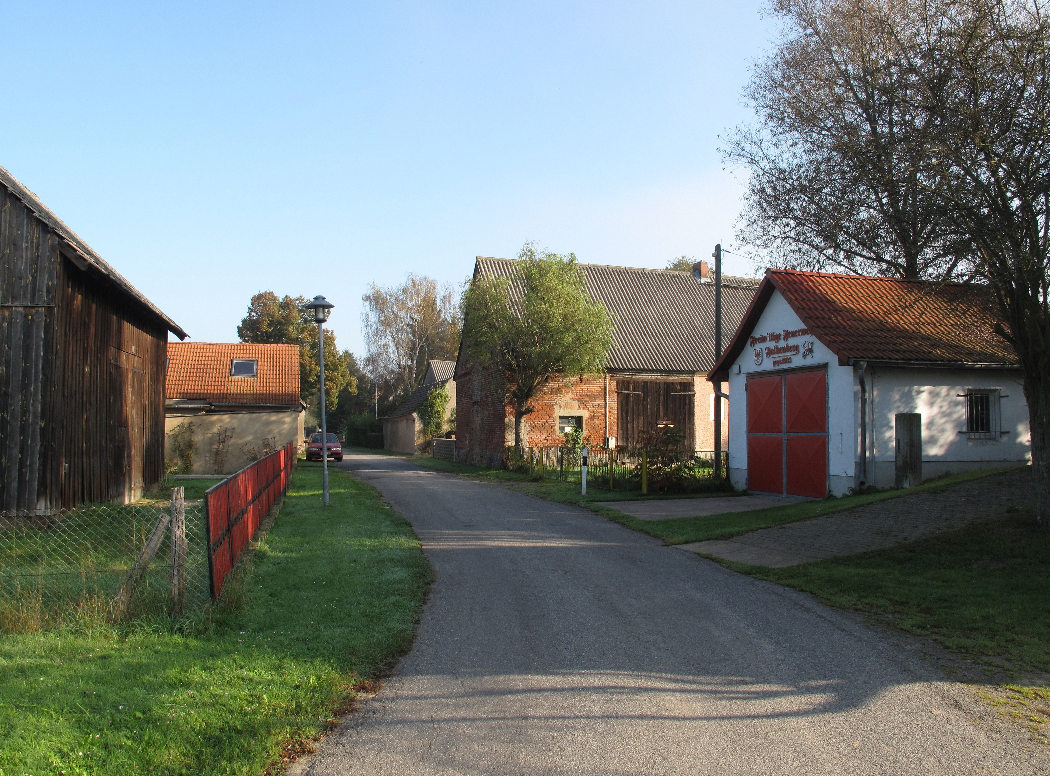 Falkenberger Dorfstraße (village street) in Falkenberg, a part (german: Ortsteil) of the municipality Tauche in the District Oder-Spree, Brandenburg, Germany.